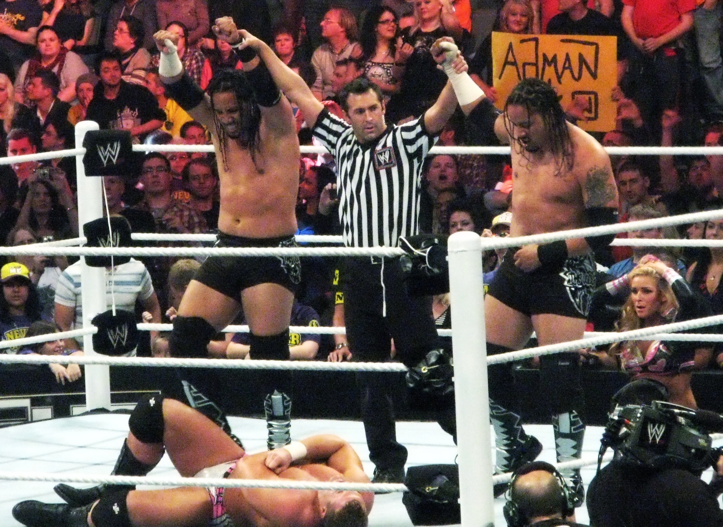 The Usos after defeat the hart dynasty